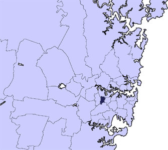 Locator Map Burwood lga sydney.png Based on Image:Ku-ring-gai sydney.png by User:Randwicked.